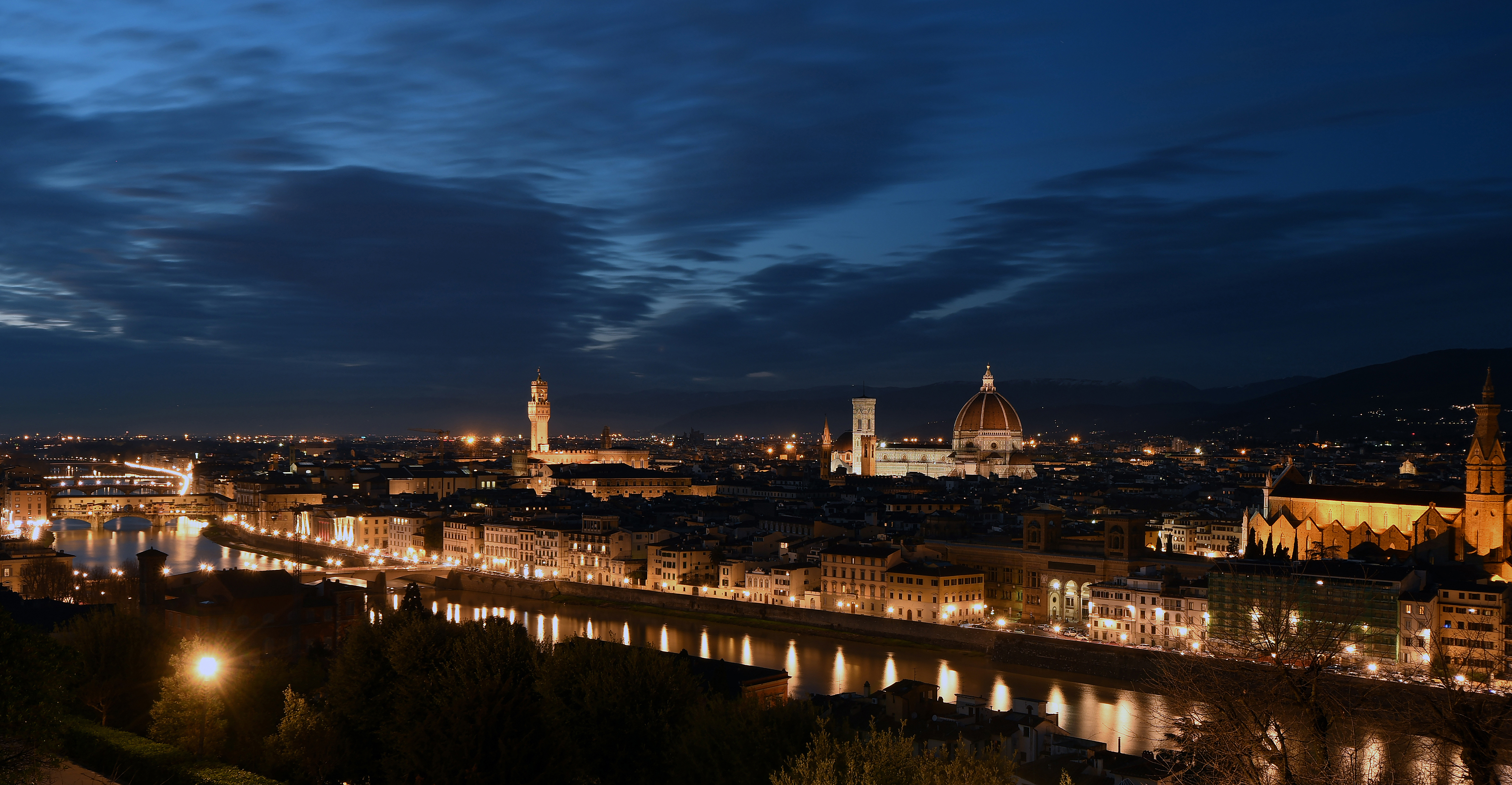 Cityscape of Florence